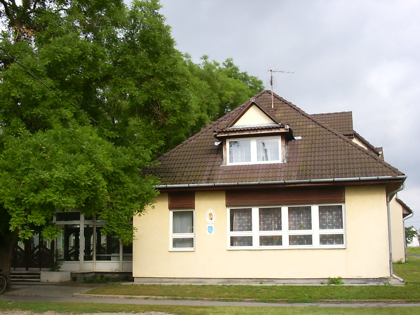 Pér, school